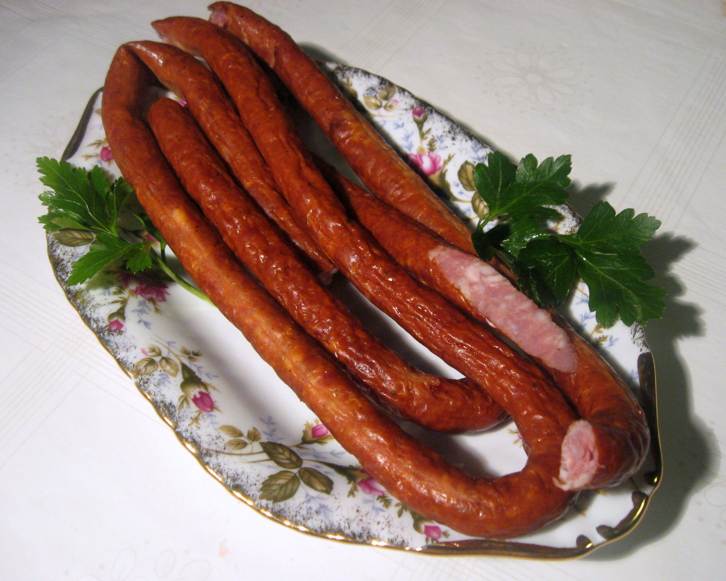 kabanos - a thin, air-dried Polish sausage